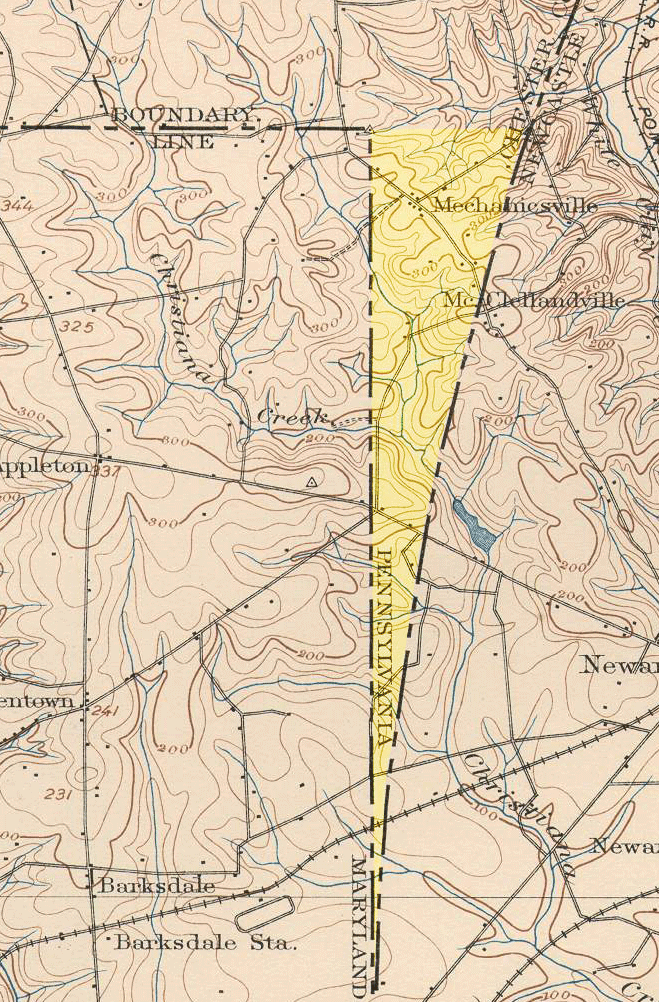 An 1898 United States Geological Survey view of the Elkton, Maryland quadrangle, showing the "wedge" area between Delaware and Maryland. This wedge of land, resulting from surveying oddities in colonial times, was the space left between the North Line--Maryland's eastern border--and the Twelve-Mile Circle--Delaware's western border. The land now belongs to Delaware, but, in this 1898 map, was considered a part of Pennsylvania. (The yellow highlight is an addition to the original map.)